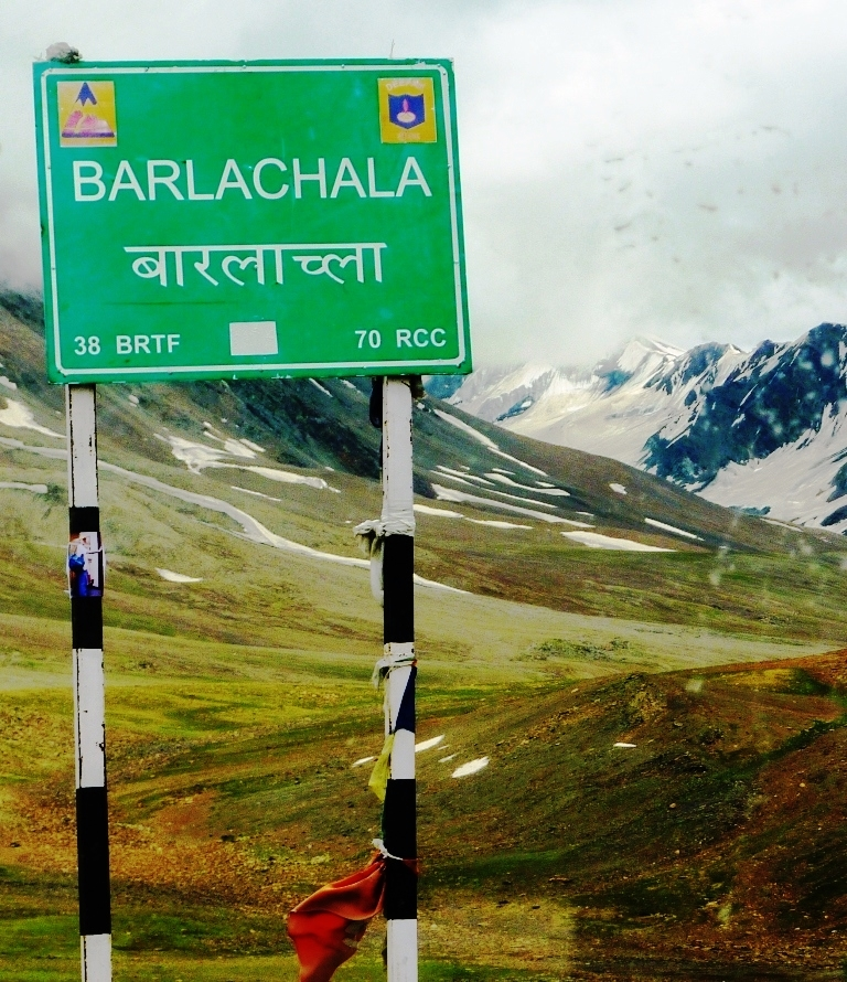 I took this photo on a trip to Ladakh in 2010 at the top of the pass